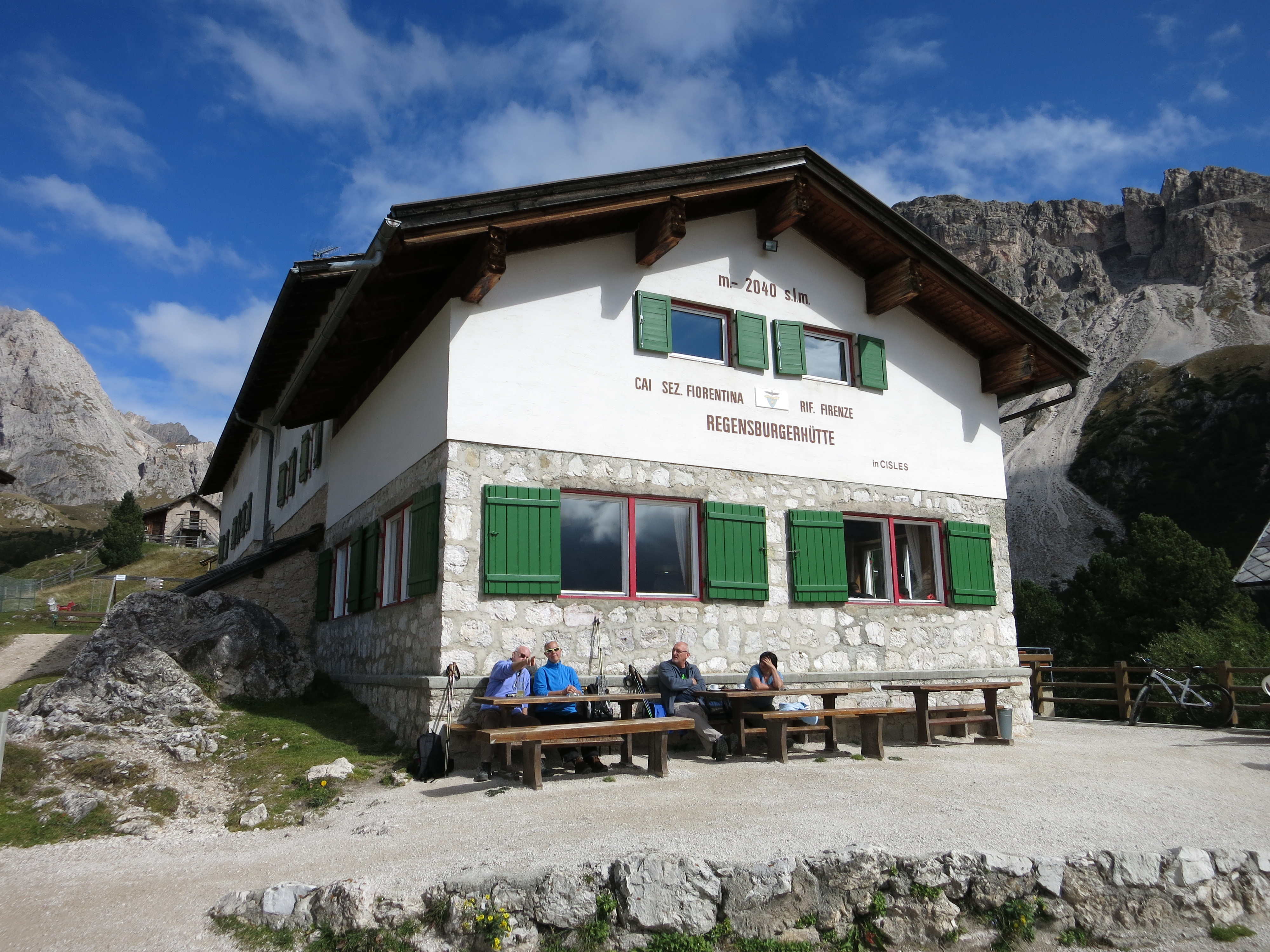 Regensburger Hütte in South Tyrol (Italy)